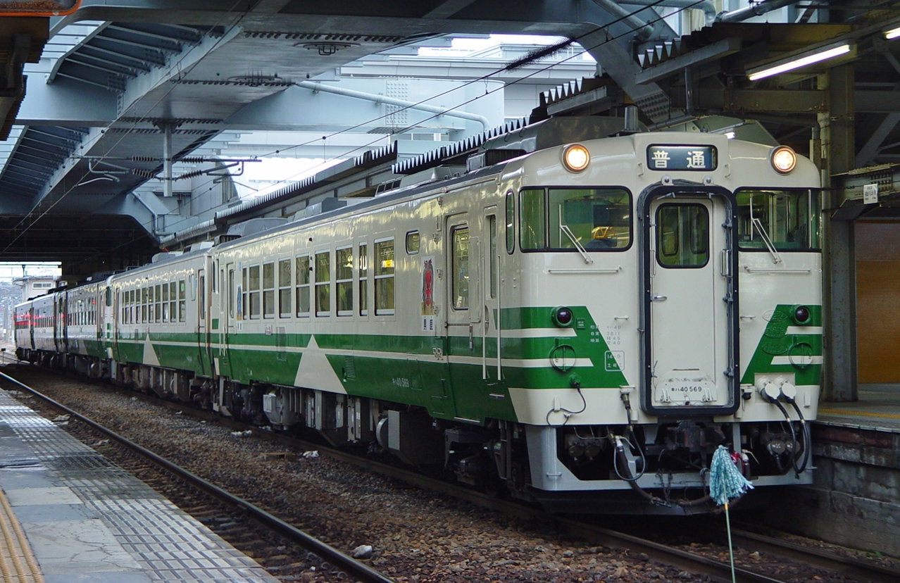 A 5-car JR East KiHa 40 series DMU formation headed by KiHa 40-569 at Akita Station on an Oga Line service